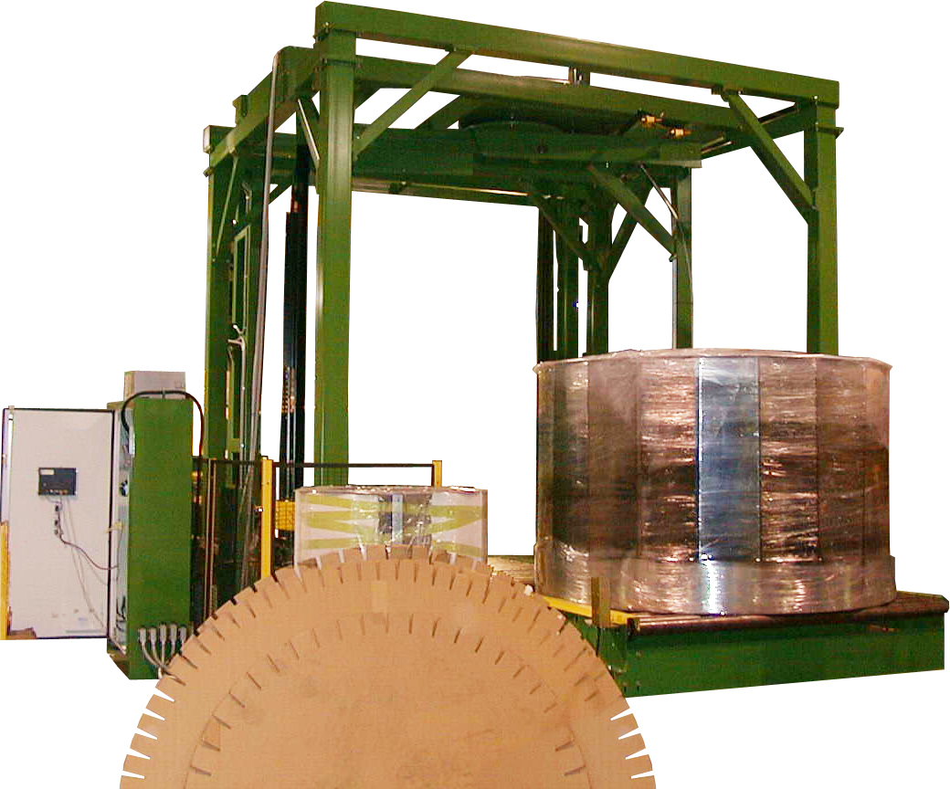 A fully-automatic Rotary Arm Stretch Wrapper machine, the Freedom 8000 from Highlight Industries shown with wrapped load and Slip Sheets in the foreground.